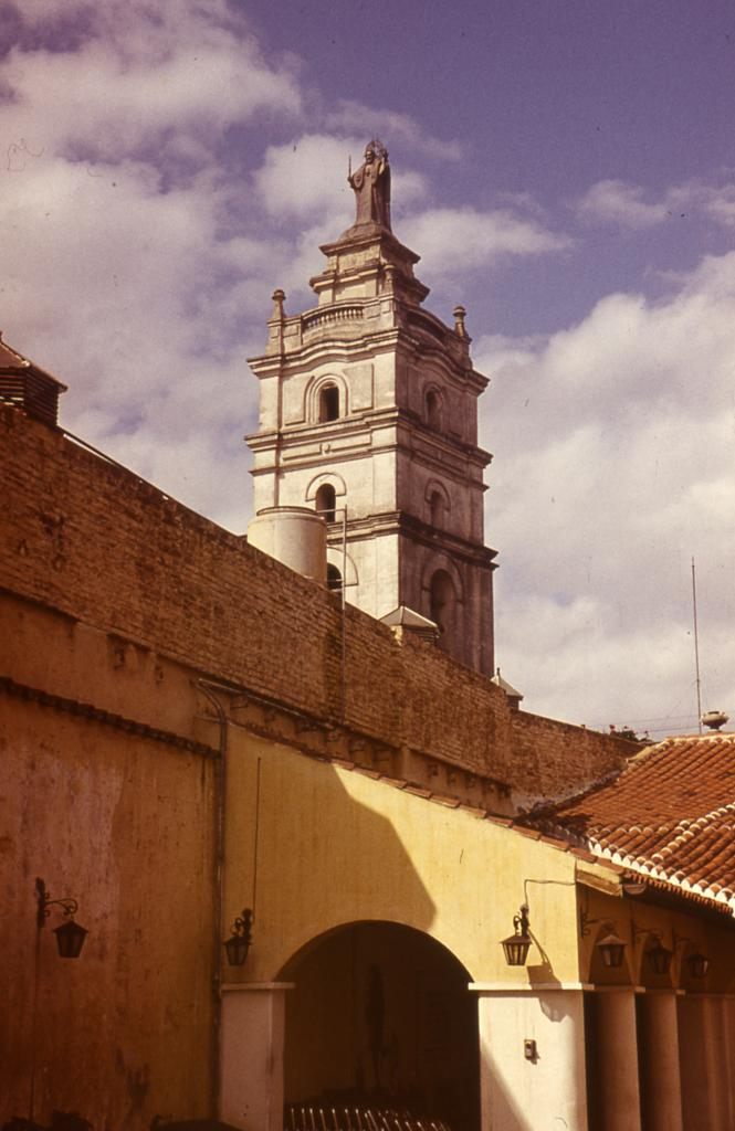 Church in the old town, Camagüey